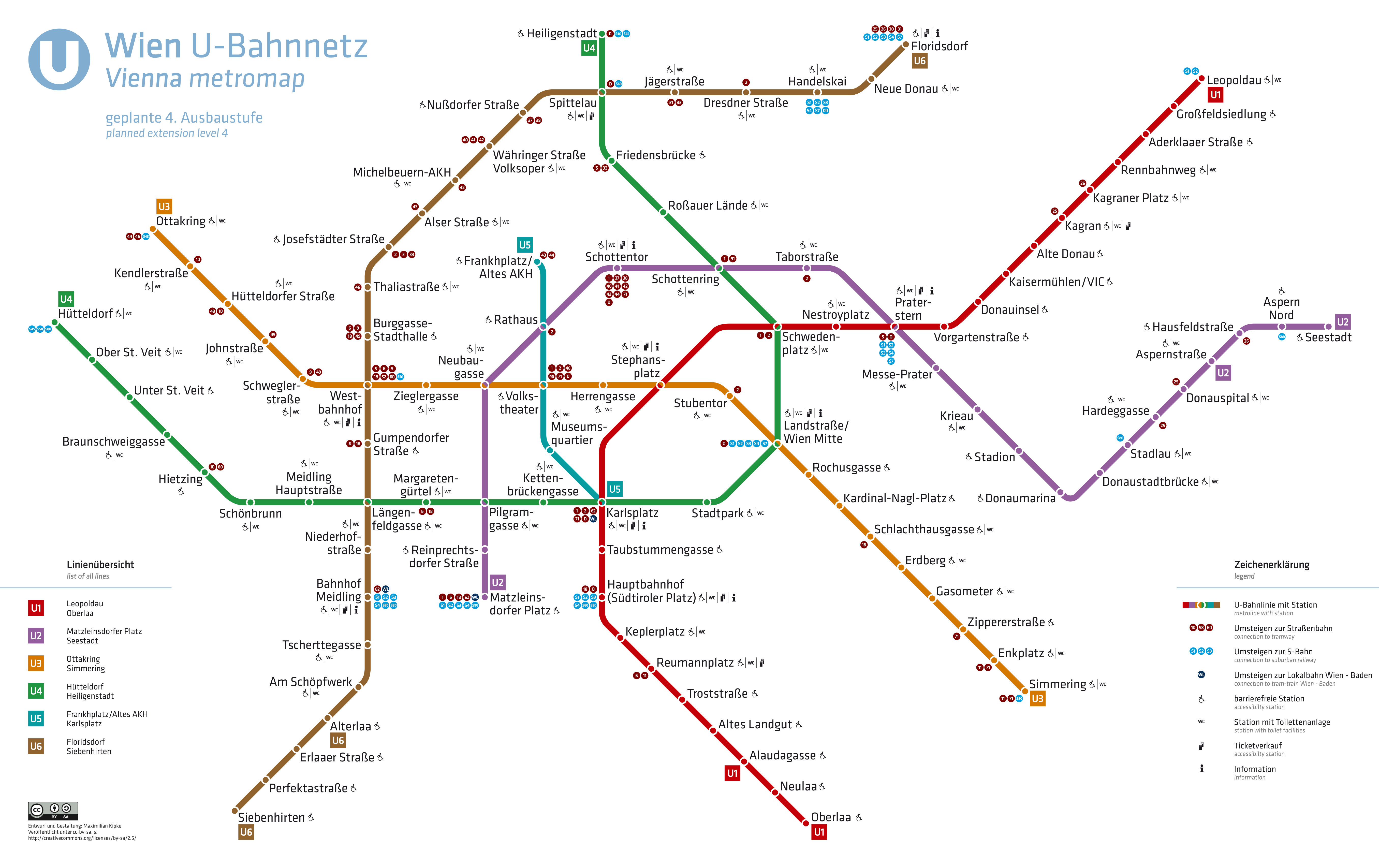 Metromap of Vienna in 2023